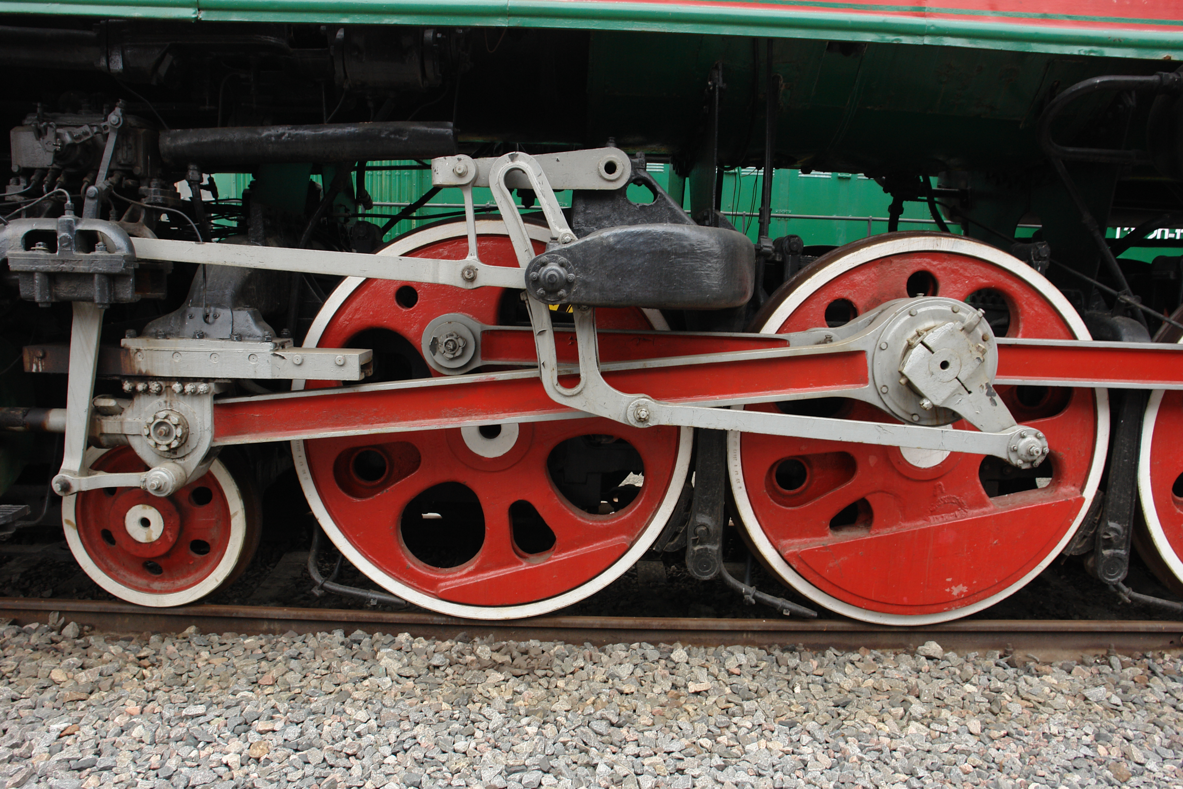 Passenger steam locomotive P36-0251 Weight in working order: excluding tender135 t including tender230 t Design speed125 kph Maximum power at wheel rim3077 hp Built by the Kolomna Steam-locomotive-building Works named afte V.V. Kuibyshev in 1956. It was the last steam passenger locomotive built in Russia. It worked on the Kuibyshev, Northern and Far Eastern railways. From 1982 it was used as a boiler at the Dal'vodremmash factory in Ussurisk. It was delivered to the museum in 1992.